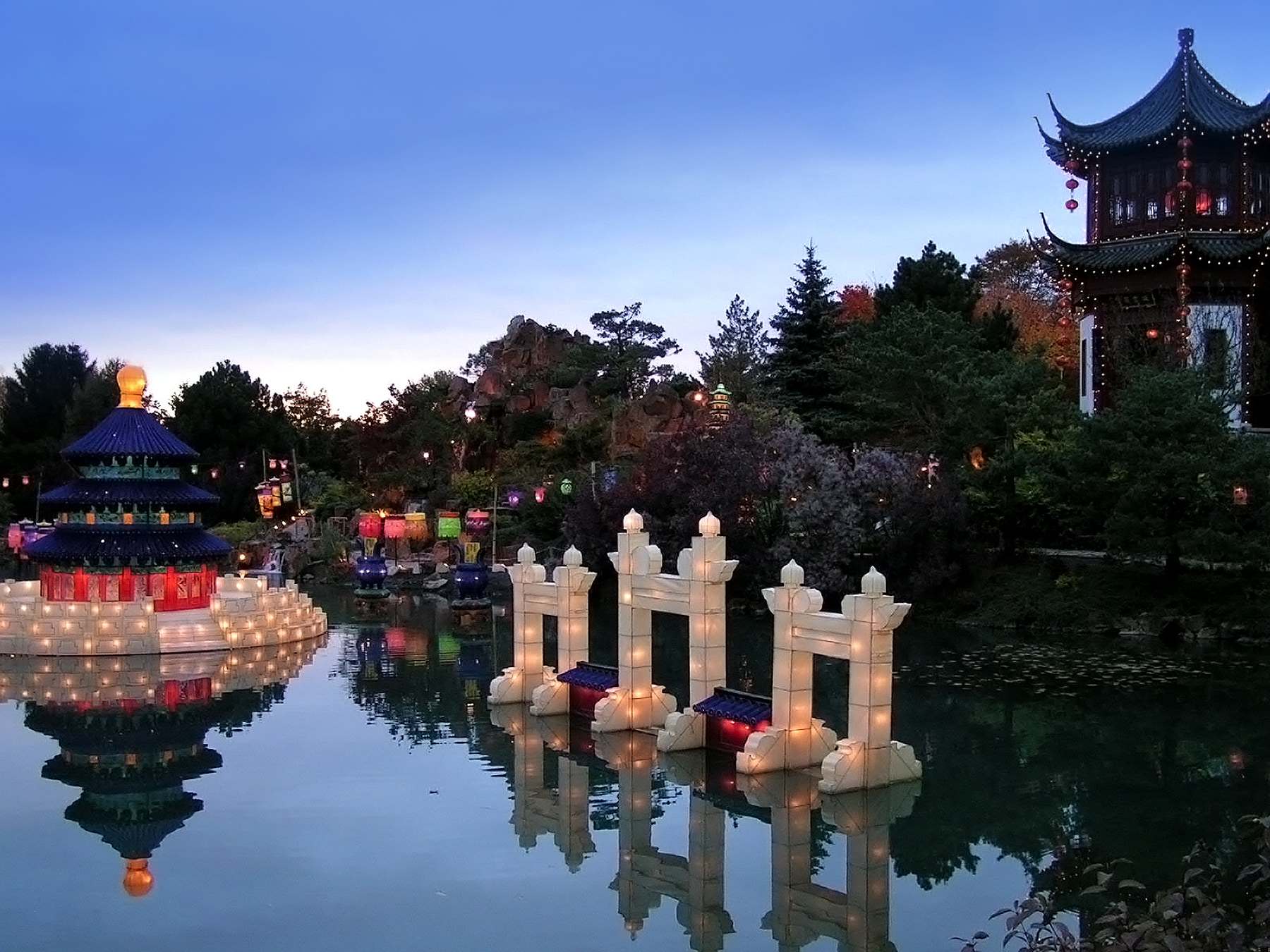 Botanical garden, Montreal, Quebec, Canada. Mid-autumn festival.